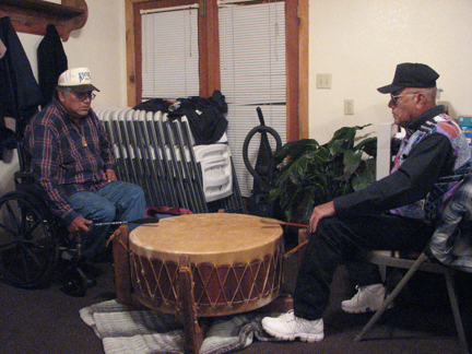 Mac Silverhorn (grandson of Silver Horn), enrolled Comanche, drumming with friend, Redstone Baptist Church, west of Anadarko, Oklahoma